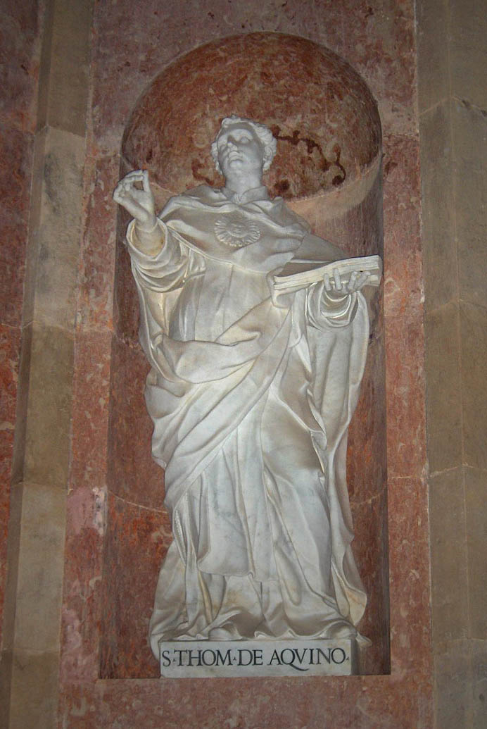 Statue of Thomas Aquinas; church in the Mafra National Palace; Mafra, Portugal